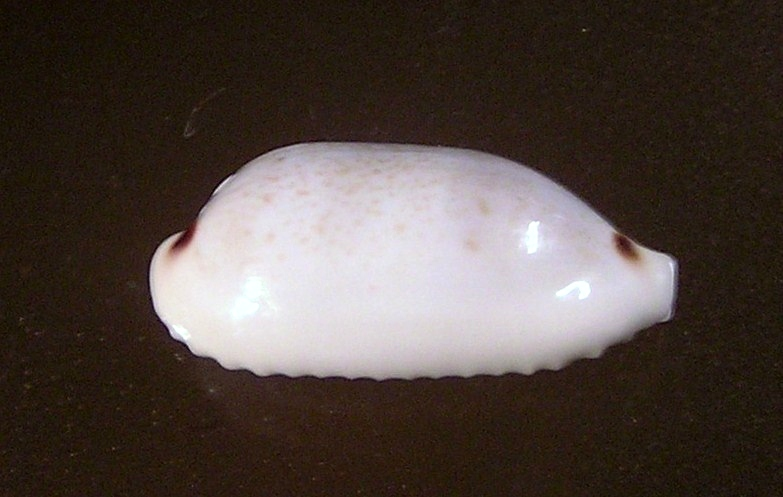 Eclogavena quadrimaculata thielei Schilder & Schilder, 1938, a cowrie from the family Cypraeidae Category:Conidae